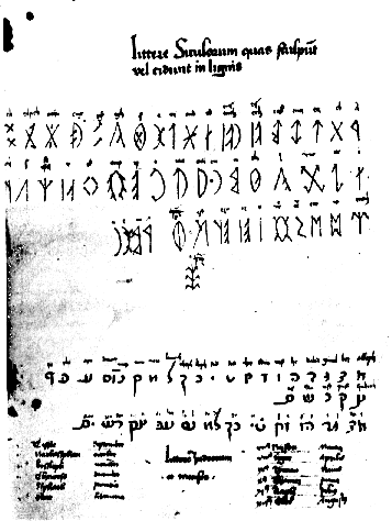 The so-called Nikolsburg-Alphabet, found on the parchment endpaper of a Nuremberg incunabulum of 1483 in the library of Nikolsburg castle (in Moravia, modern Mikulov, Czech Republic), now in possession of the Hungarian National Museum, Budapest